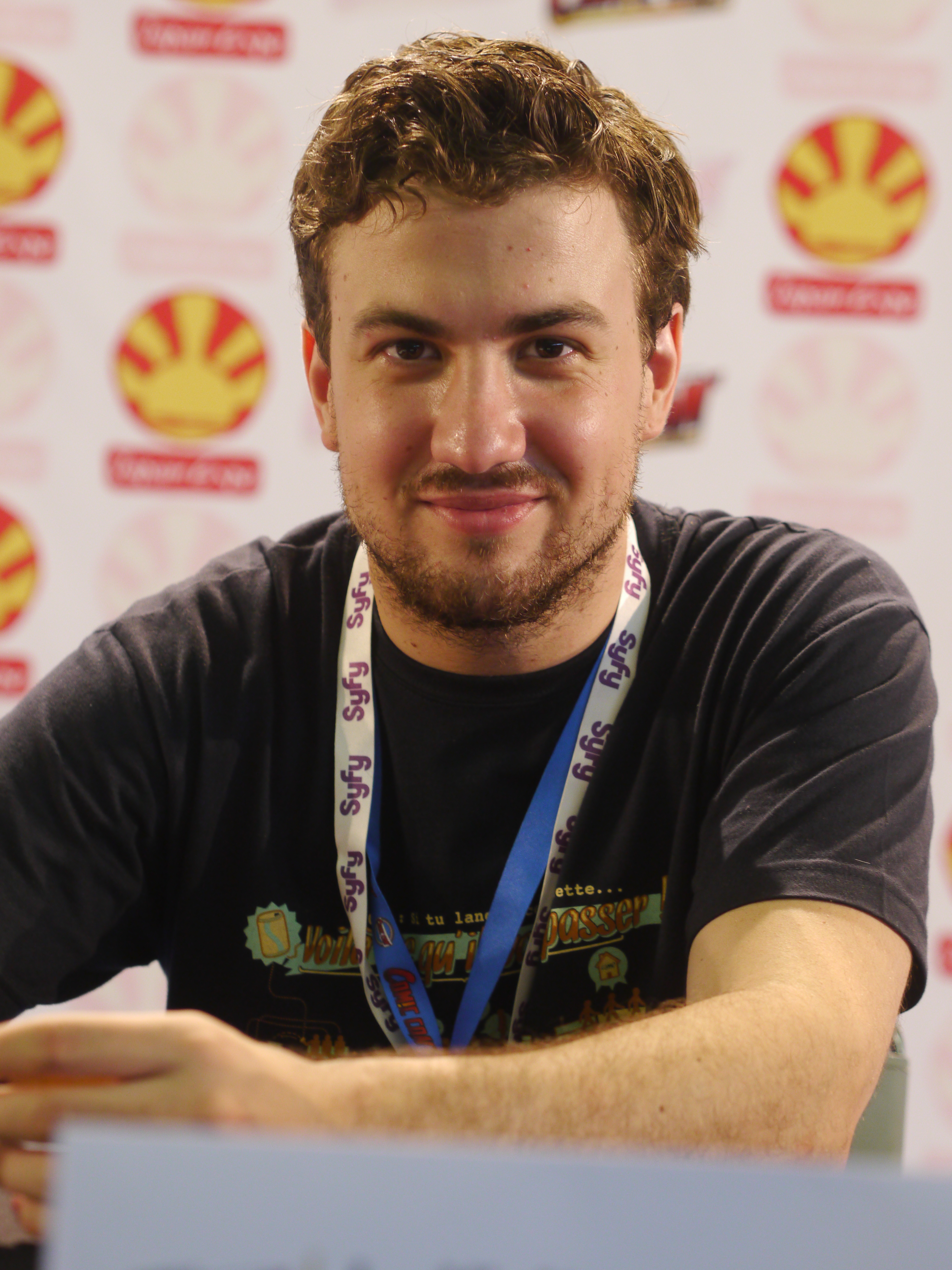 Japan Expo Festival, 14th impact